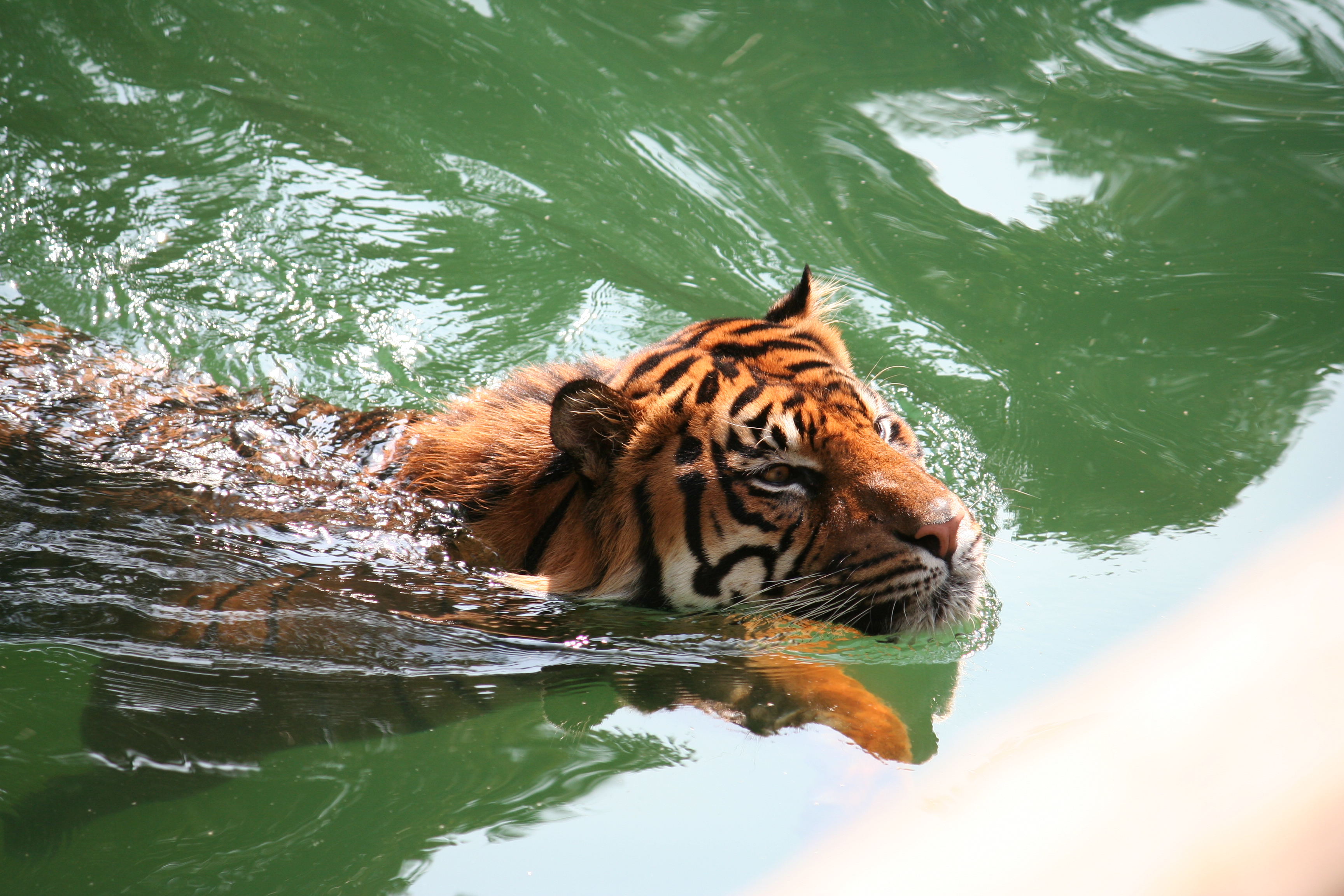 One of two tigers at the zoo, Washington, D.C.